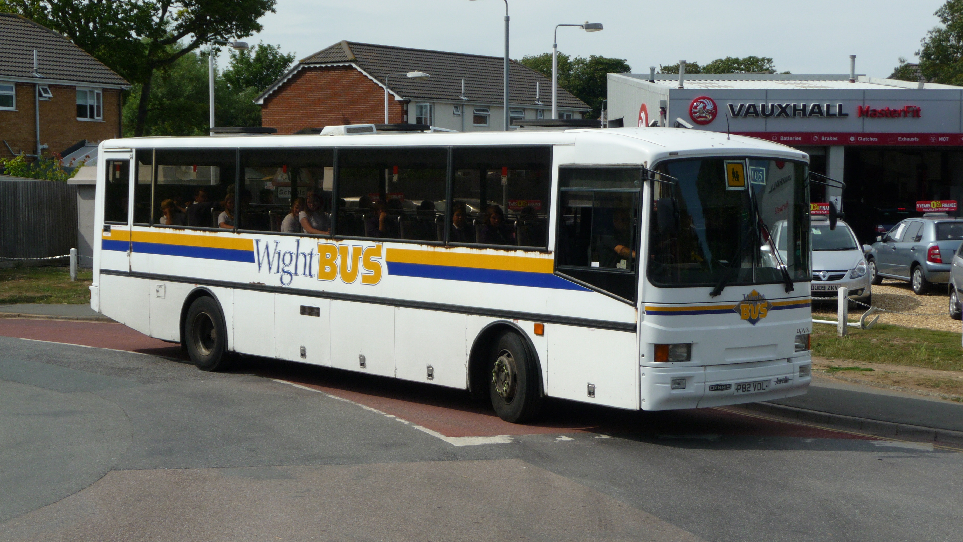 Wightbus 5817 (P82 VDL), a Dennis Javelin/UVG, turning from Wellington Road into Carisbrooke Road, Carisbrooke, Isle of Wight, on school route 105 to Ventnor via Rookley, Pagham, Godshill and Nettlecombe.